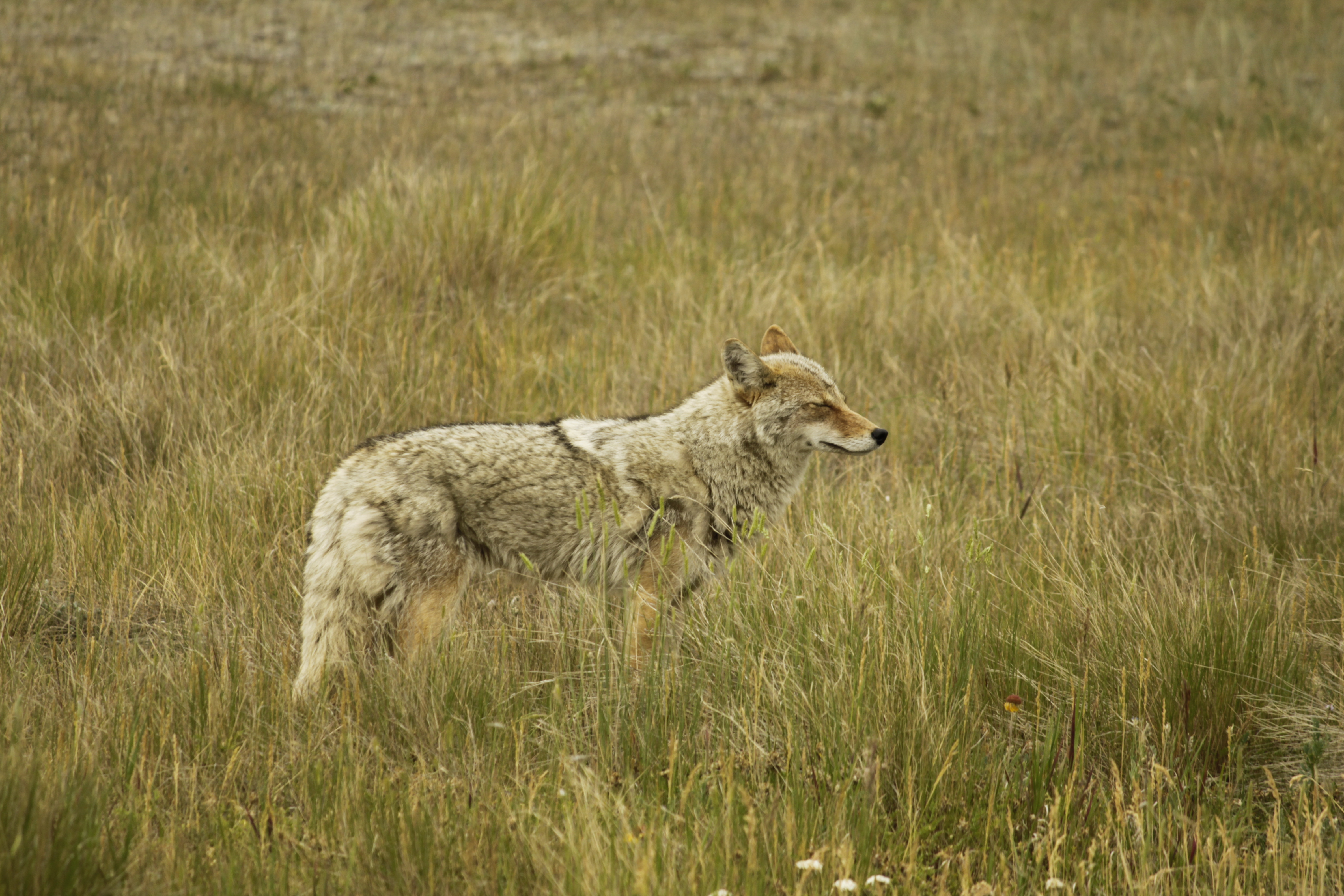 Coyote